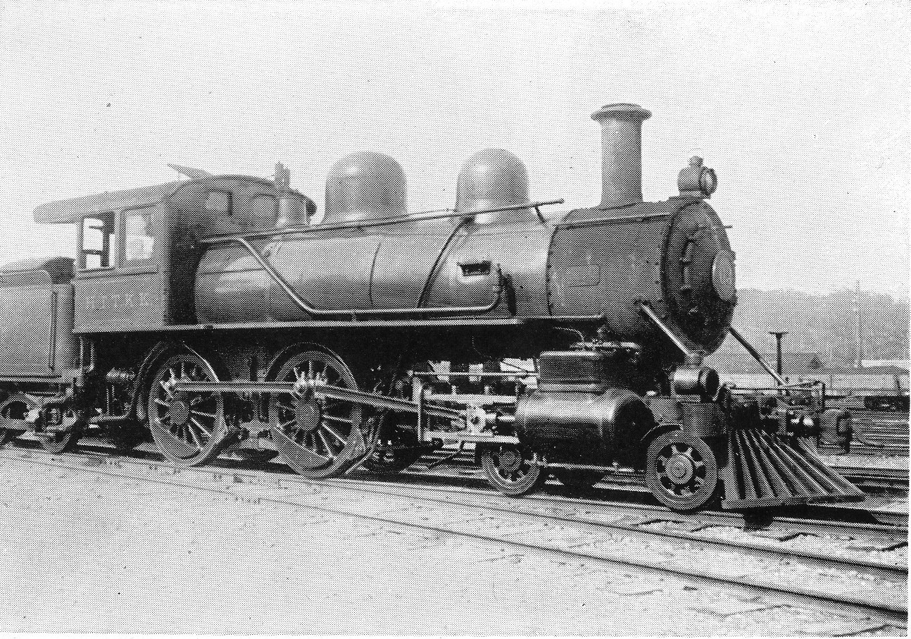 Japan Government Railway type 5700 steam locomotive